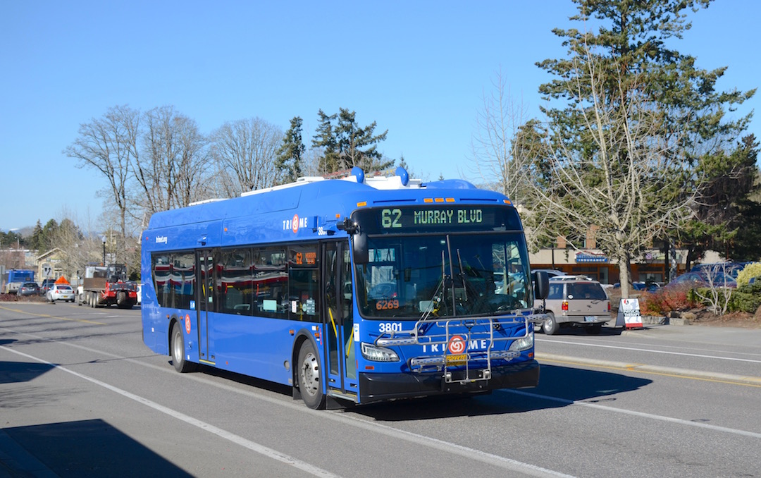 TriMet bus 3801, the Portland-area transit agency's first battery-electric bus, on its first day in service, March 4, 2019. No. 3801 is a 2018-built New Flyer XE40 and is pictured here eastbound on Cornell Road near Barnes Road in Cedar Mill, headed for Sunset Transit Center on line 62-Murray Blvd. Its paint scheme is not yet complete; TriMet plans to add graphics promoting the bus's being all-electric. Four additional buses of the same type are on order.